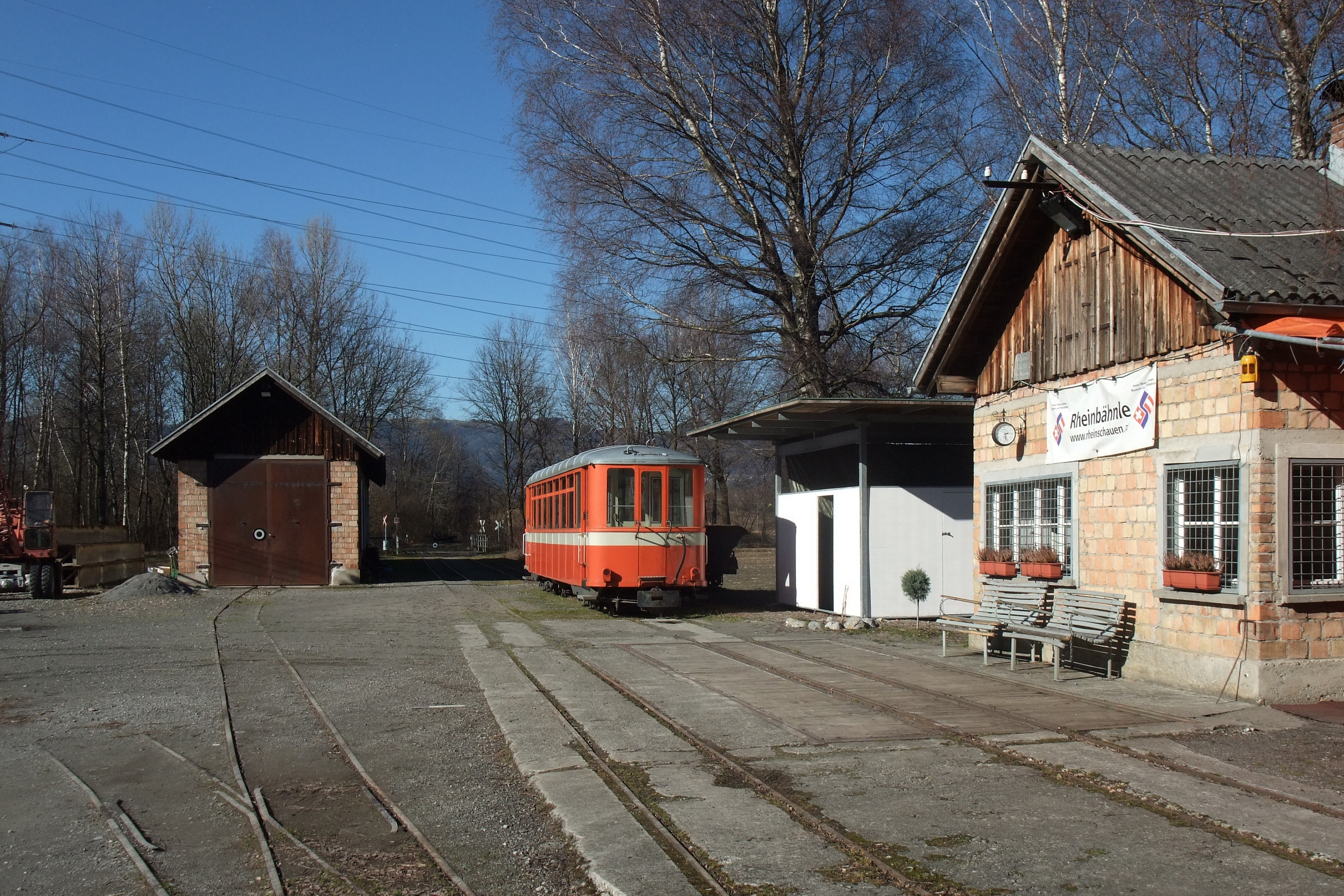 On 26 October 2011, the last trip was made with tourists by the association Rhein-Schauen over the railway bridge of the International Rhine Regulation (IRR) to this station at the quarry Kadelberg in Koblach. The red tram is one of three vehicles, which was acquired from the Swiss Trogen-railway in 2004 (today Appenzell Railways). The building on the left is the engine shed. Vorarlberg, Austria, Feb 23, 2014. (14/17)